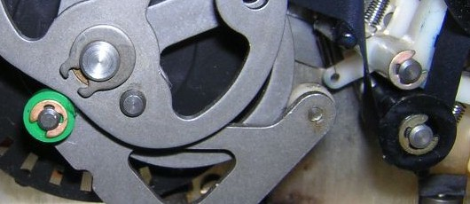 machine part with four securing rings